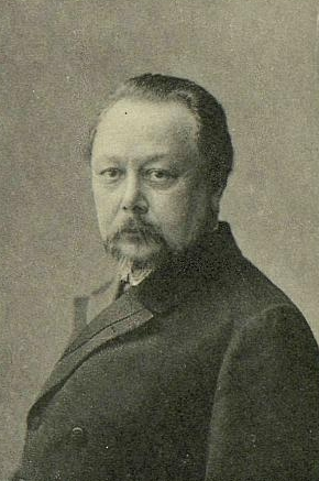 Nikolay Schepkin